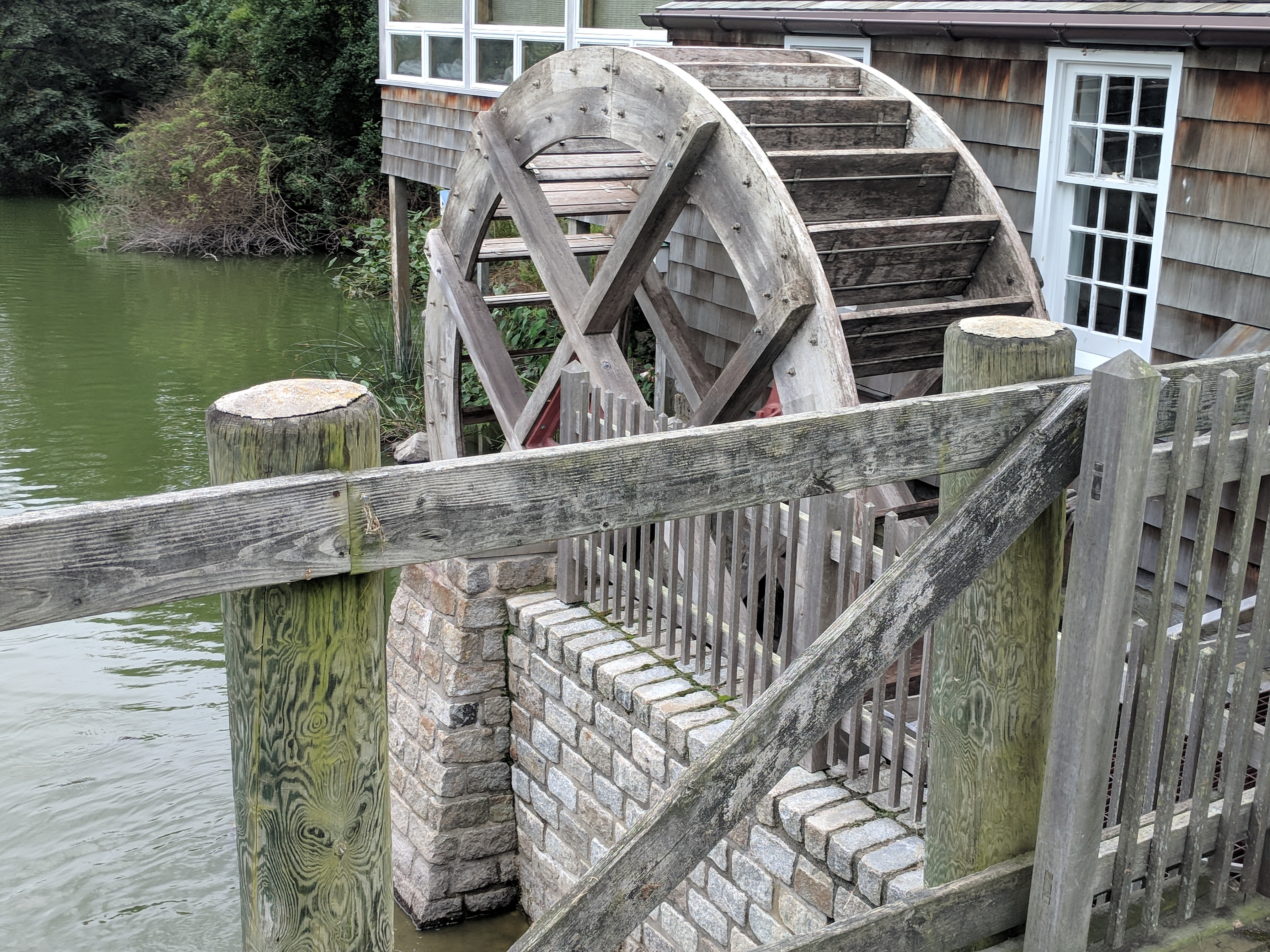 Water works exterior undershot wheel